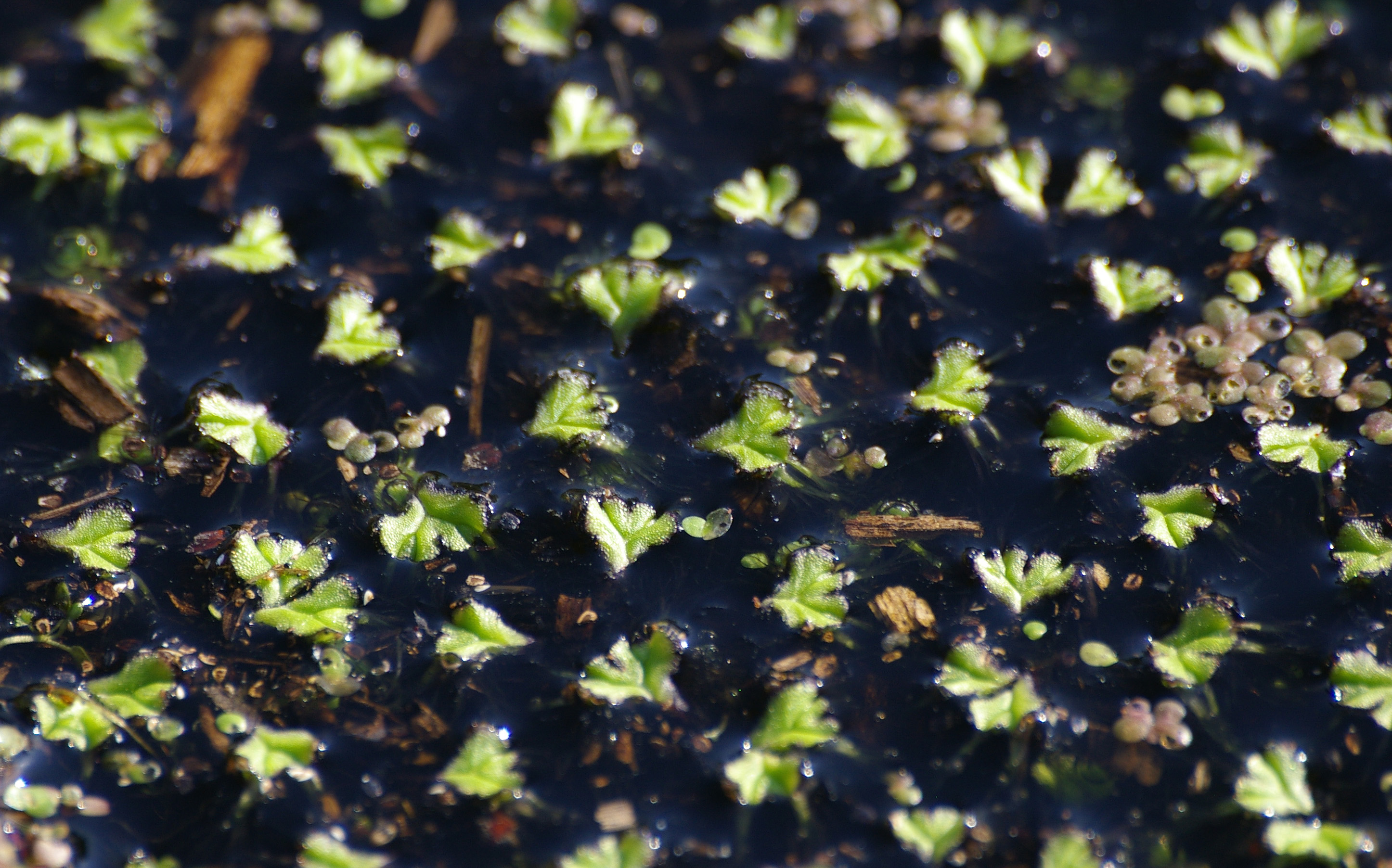 The floating liverwort species Ricciocarpos natans.